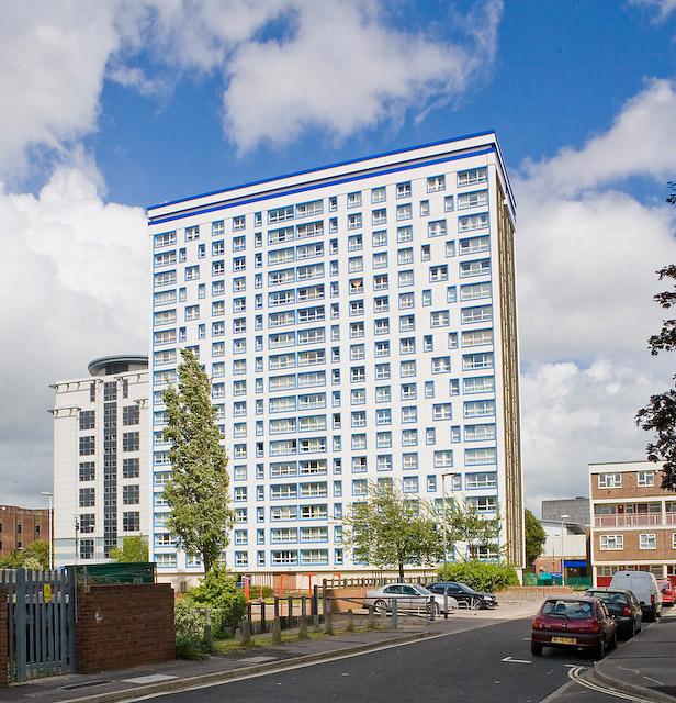 Leamington House, Earlsdon Street, Portsmouth This is City Council housing. There is another matching block nearby, named Horatia House, that has green rather than blue outlining.